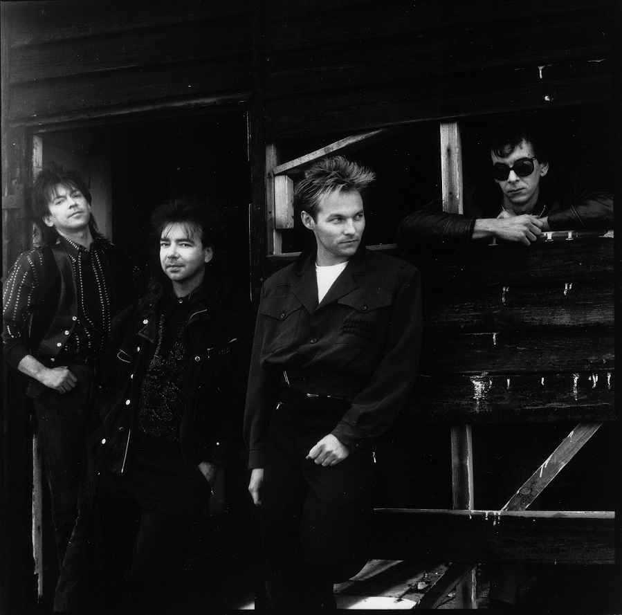 Band Shot 1989